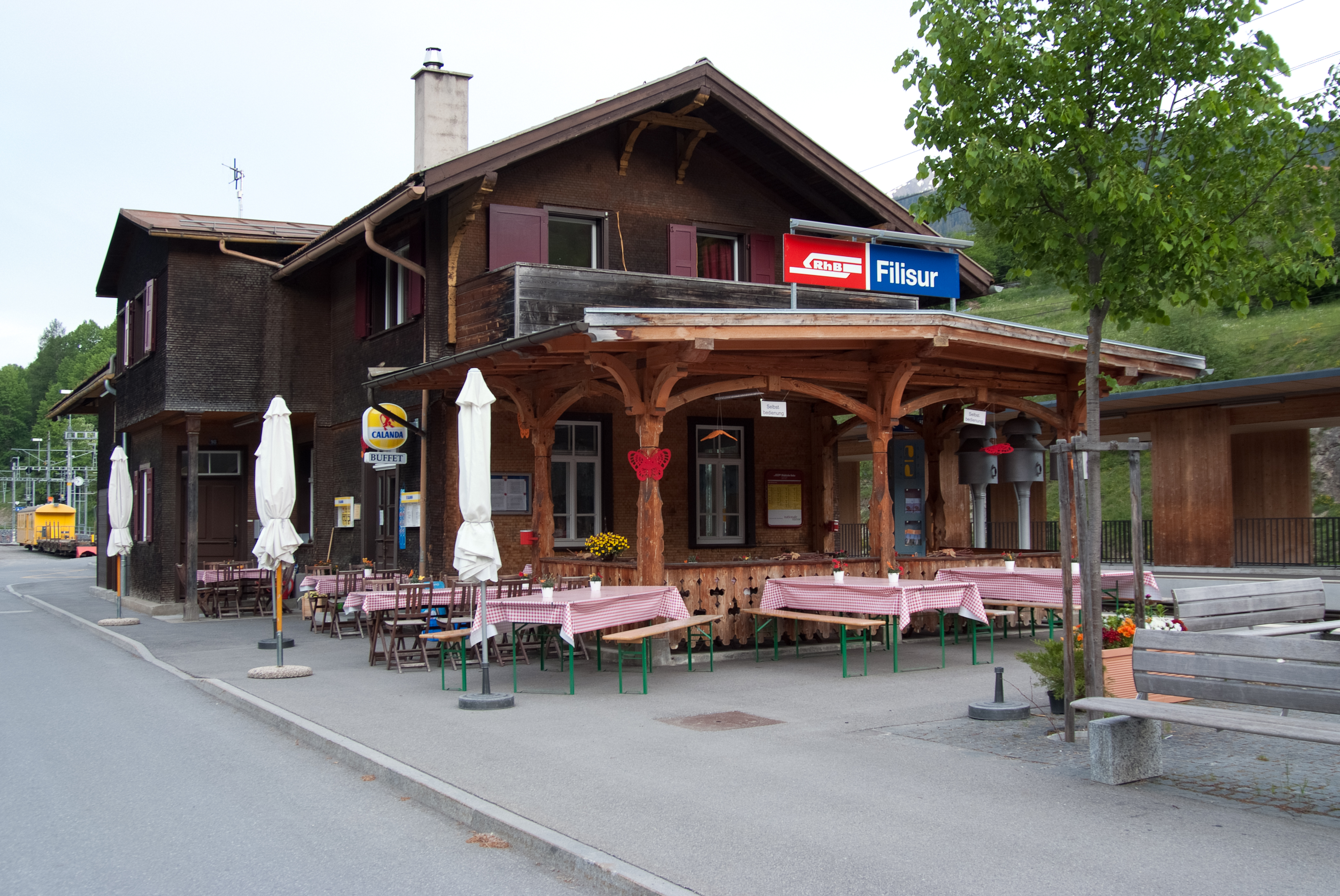 Railway Station Filisur